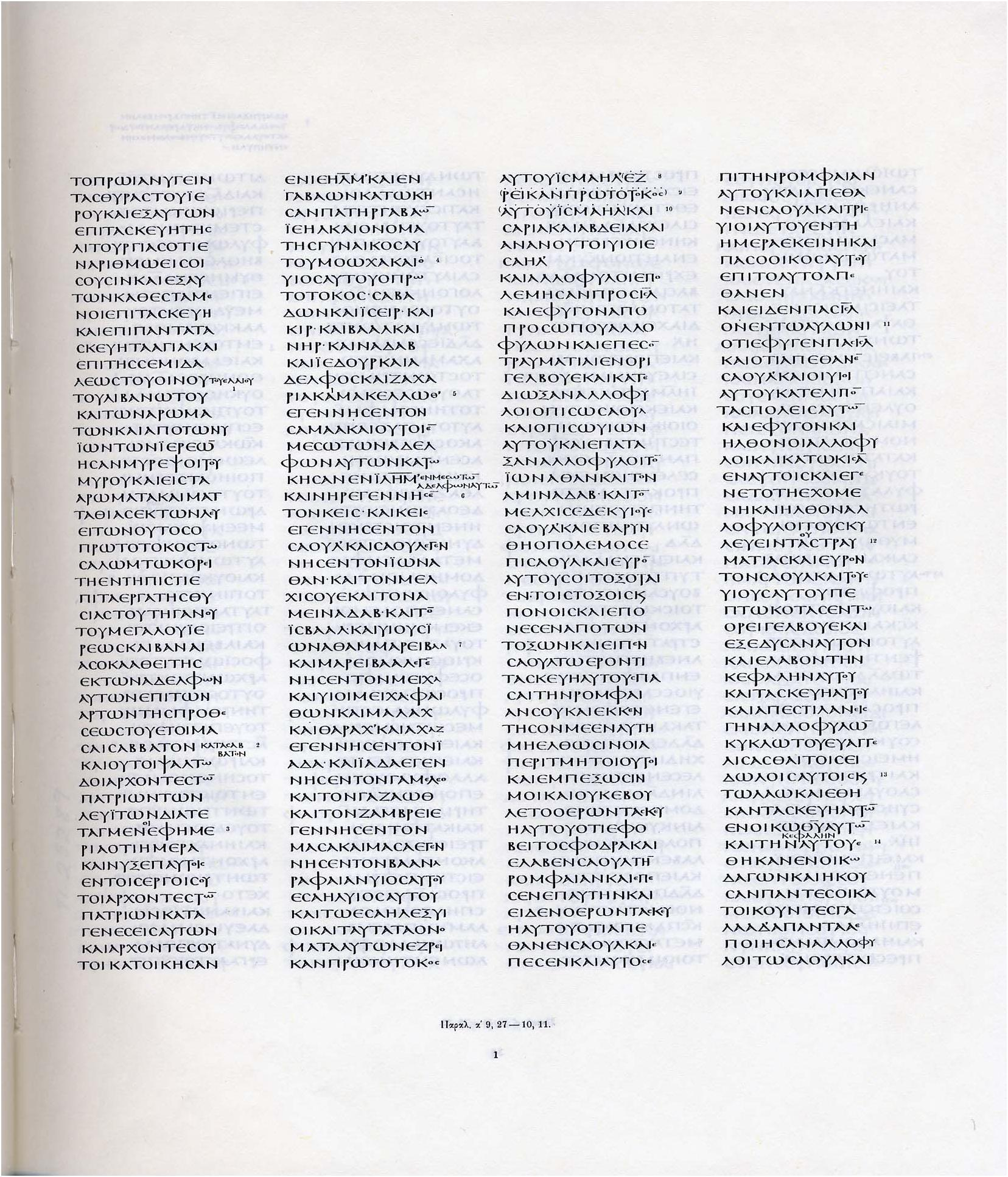 page of the codex with text 1 Chr 9:27-10:11